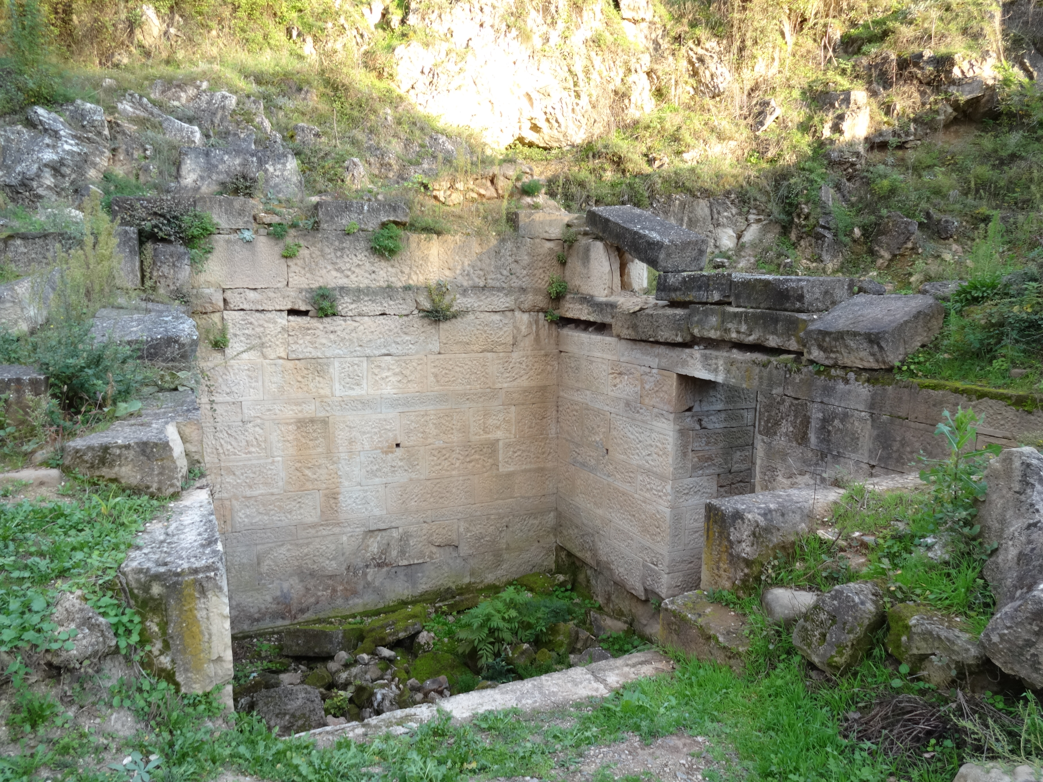 Archaeological site Gradište in Brazda near Skopje, Macedonia